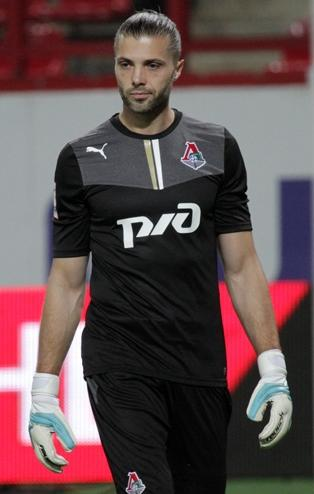 Ilya Abayev with FC Lokomotiv Moscow.